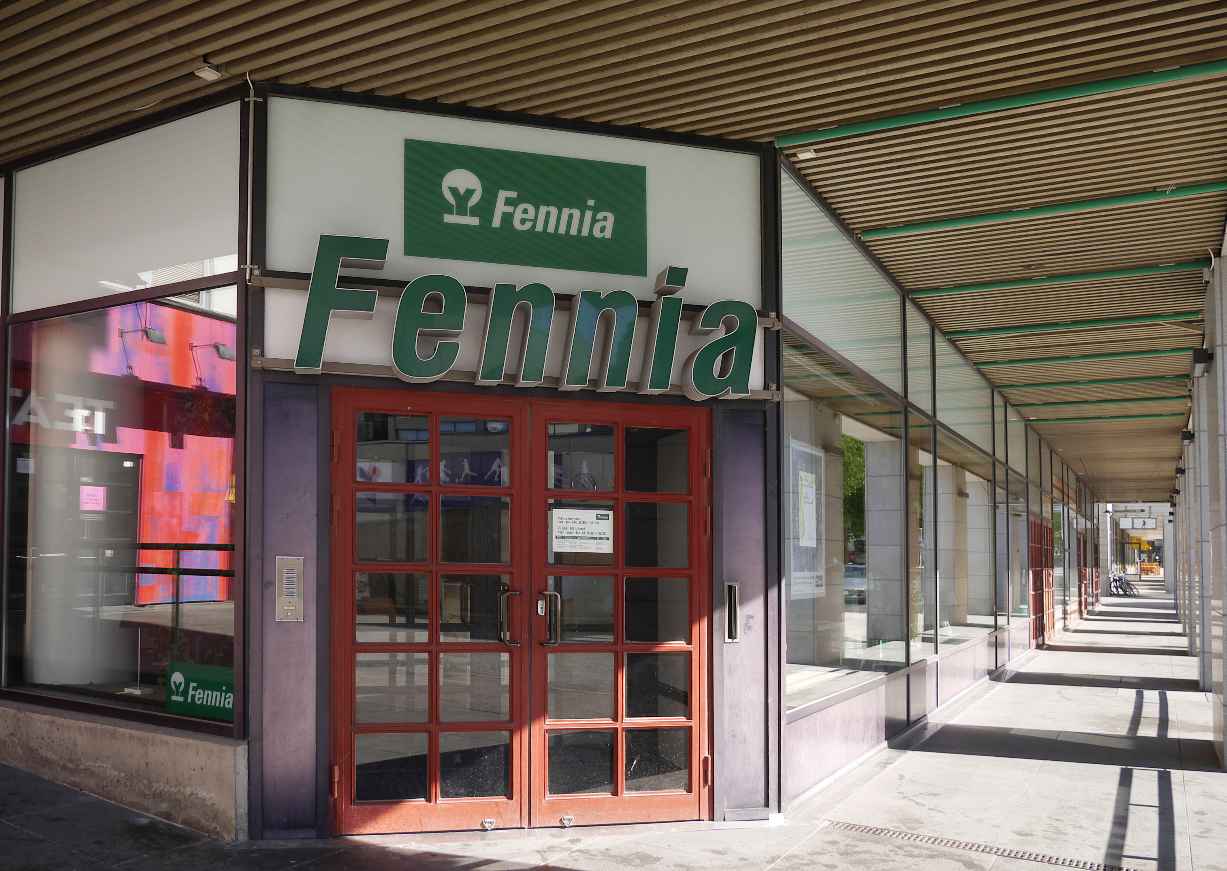 Fennia insurance company office in Vaasa, Finland.